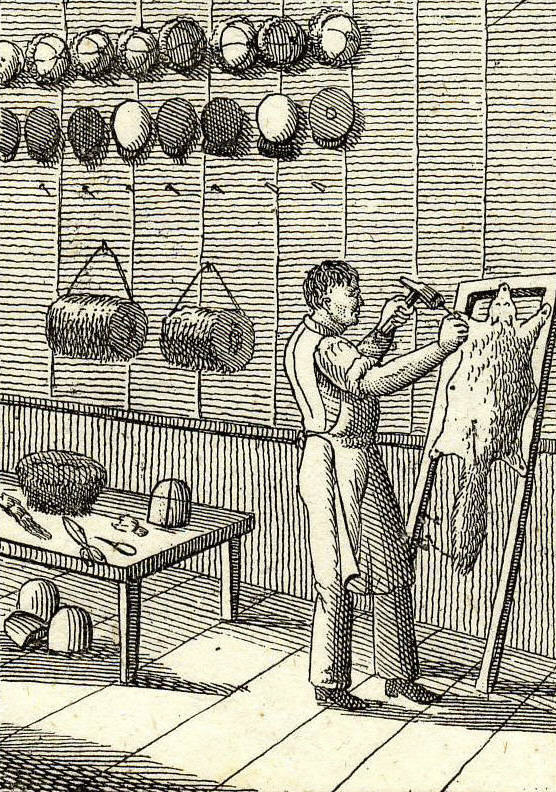 furrier